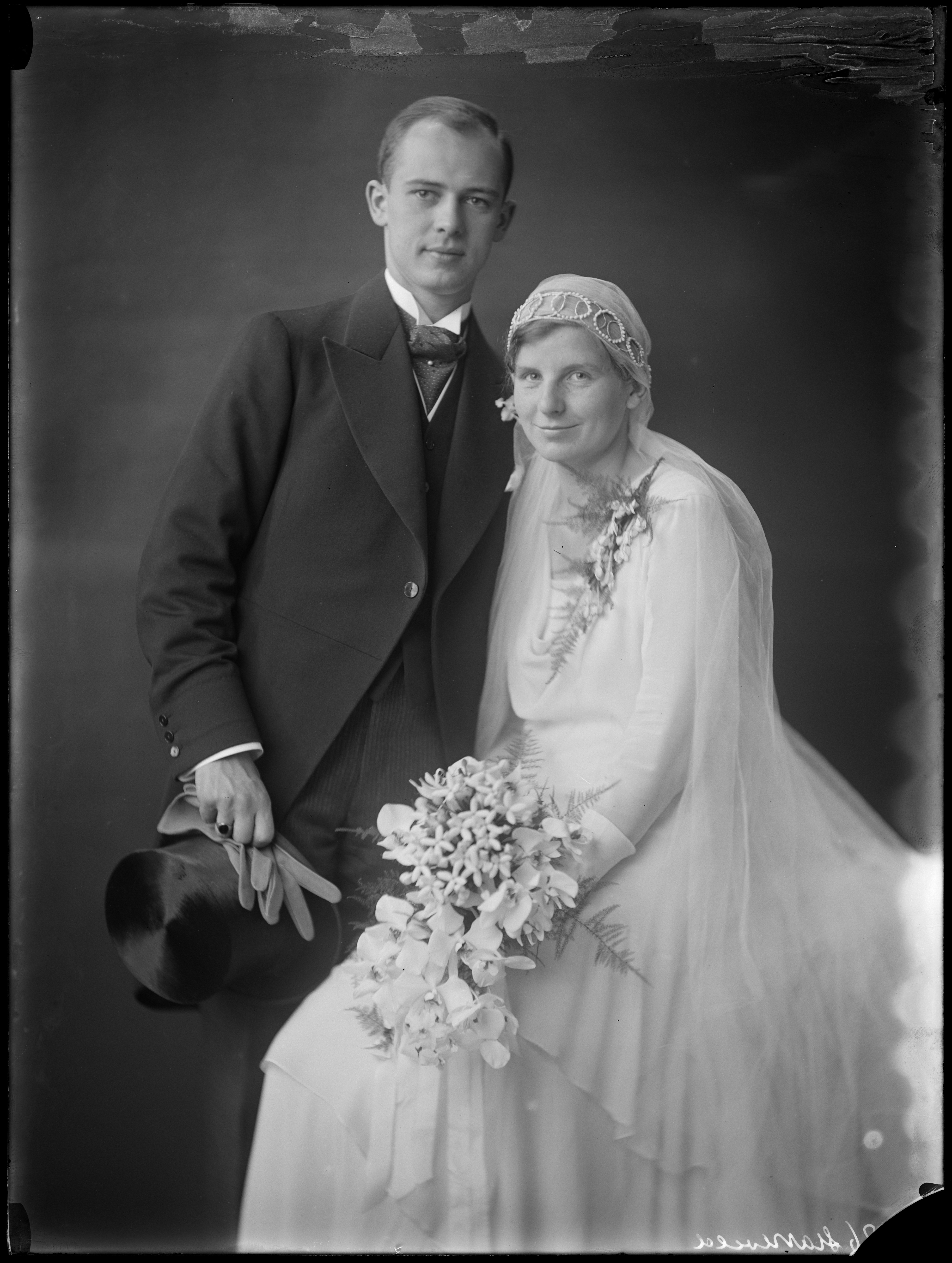 Remmer Willem Starreveld & Suzanna Maria Wilhelmina van der Lugt Melsert. 1931